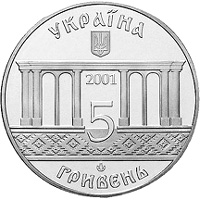 Coin of Ukraine